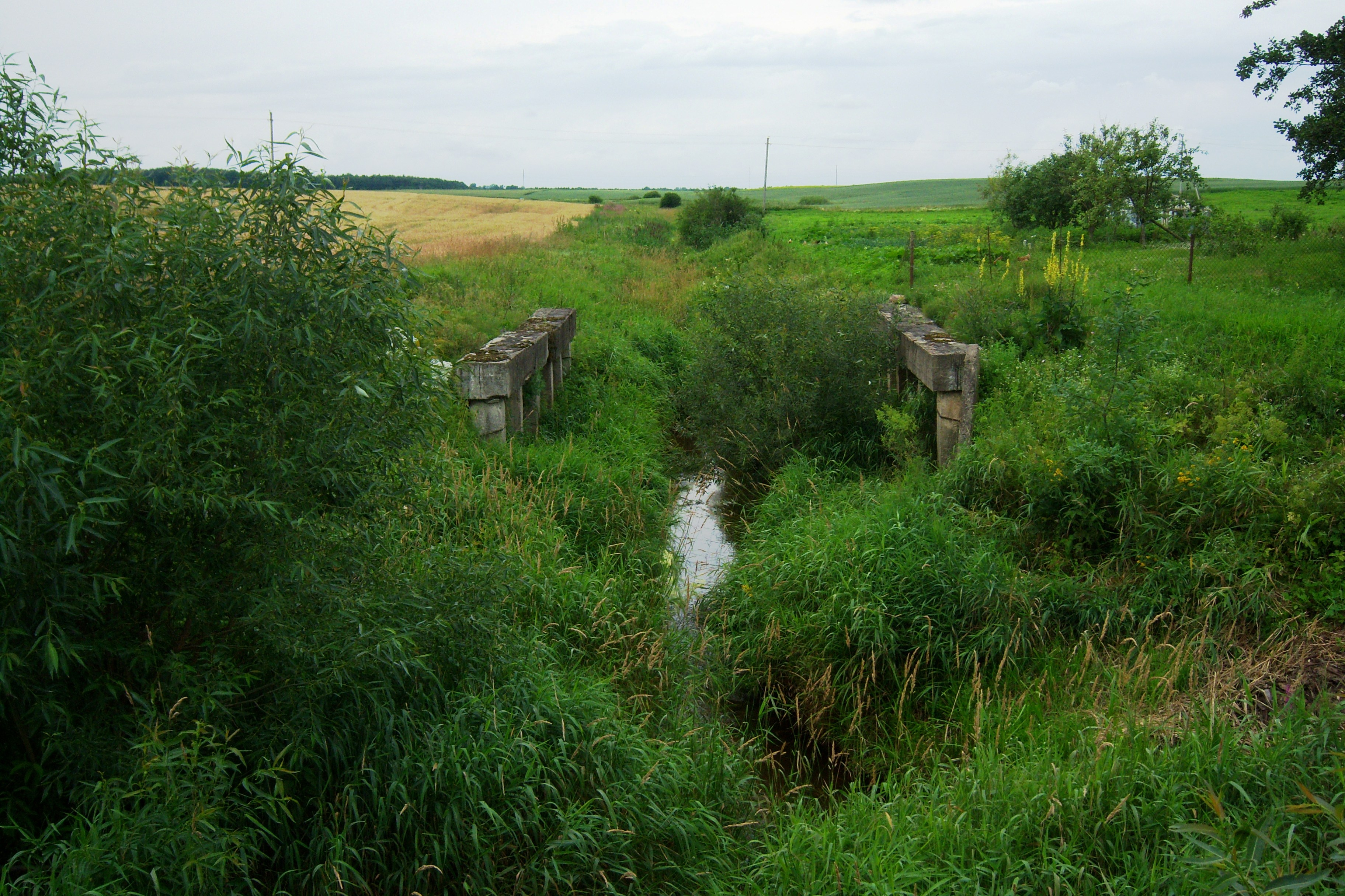 Vyčius River near Vainatrakis. Kaunas district. Lithuania